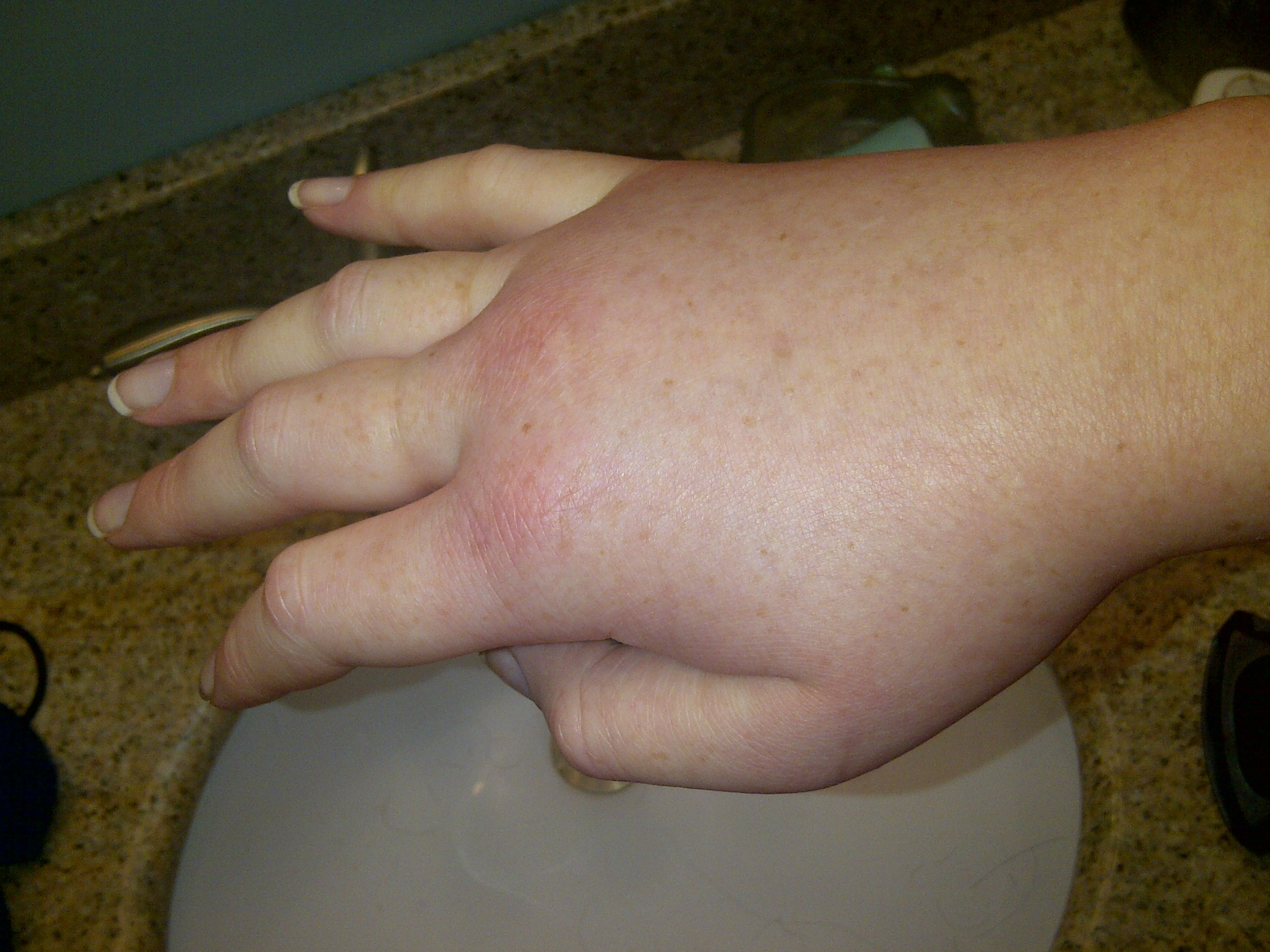 Swollen right hand in a female patient during a hereditary angioedema attack. Hereditary angioedema